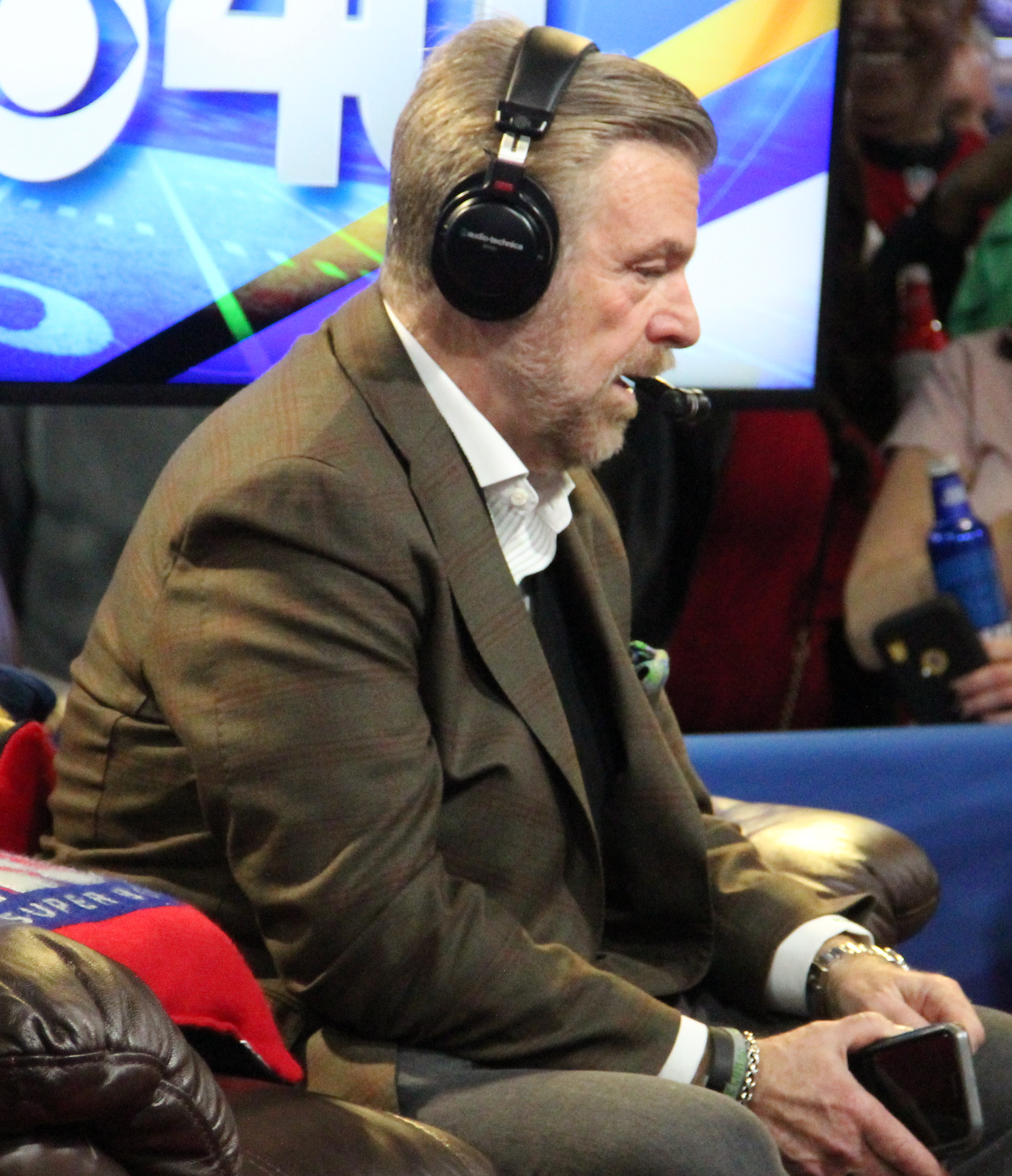 Howard Eskin in an interview with Fred Kalil, Jan 2019